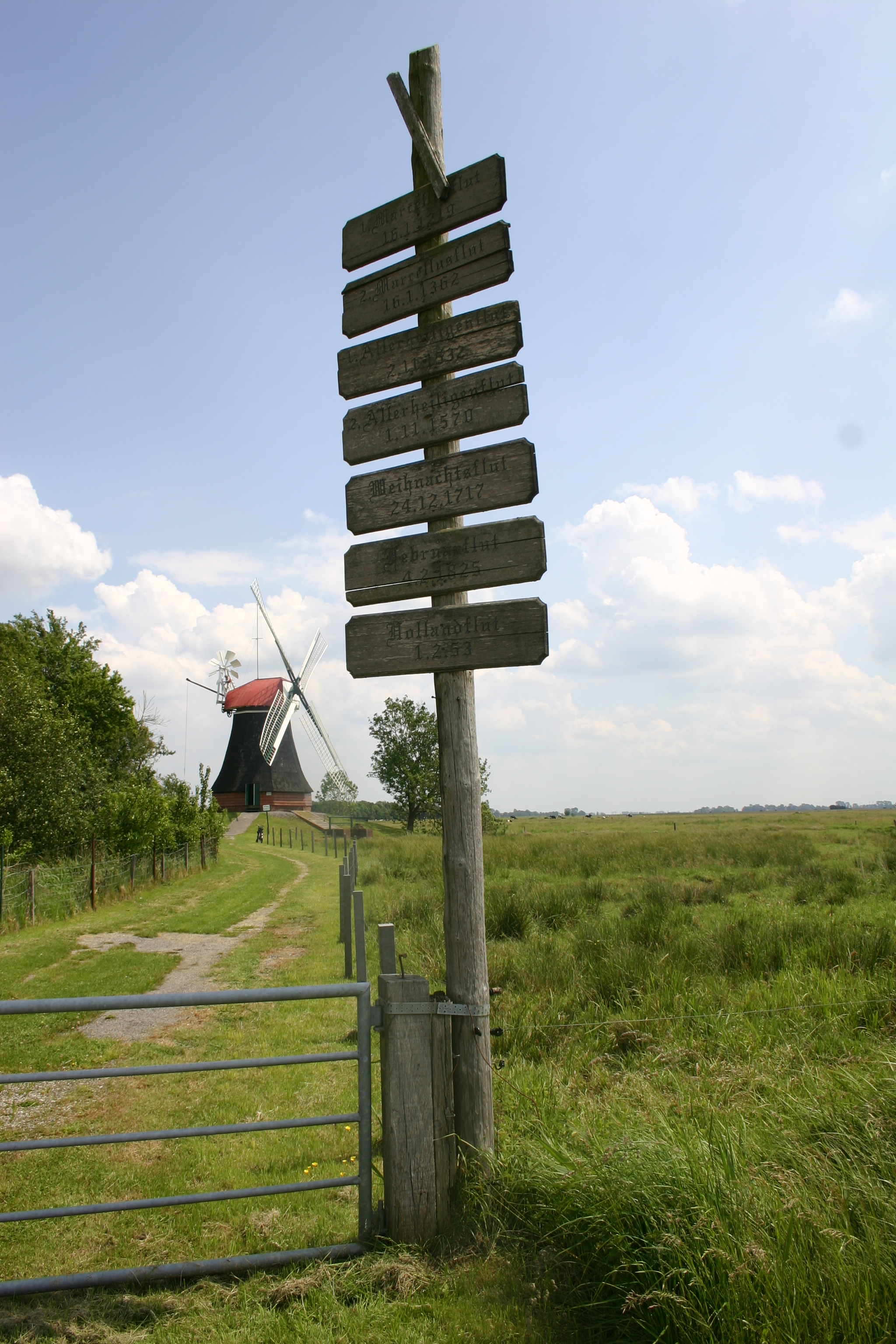 Wynhamster Kolk, an area below sea level (- 2.5 m) near Bunde in East Frisia, one of the lowest-lying places in Germany. The photo shows the wind mill used to meliorate the area and a signpost showing the floodmarks of stormfloods of several centuries.